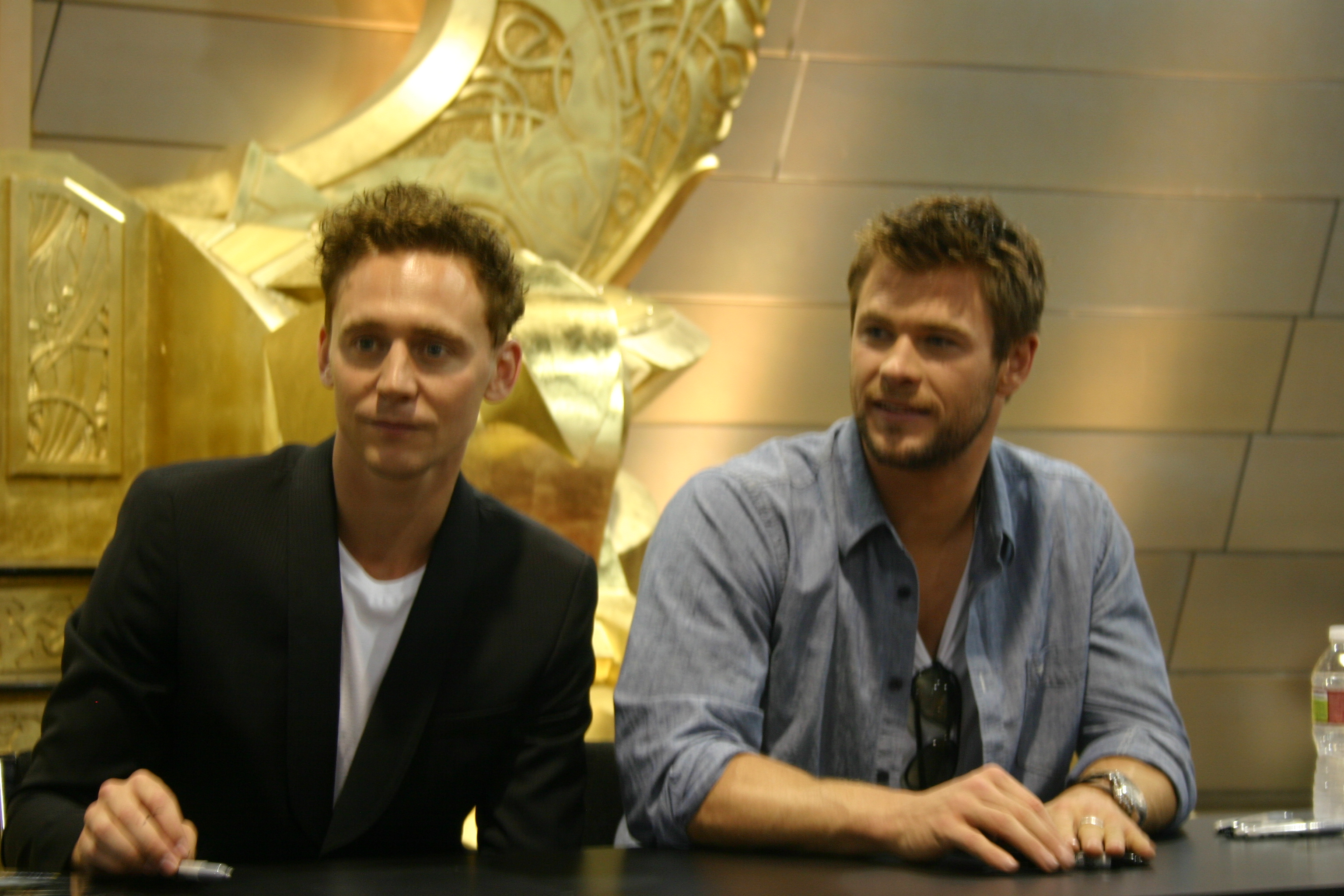 Chris Hemsworth and Tom Hiddleston promoting the film Thor at the 2010 San Deigo Comic-Con International.